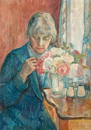 His Wife, Christine, with Rose Bouquet